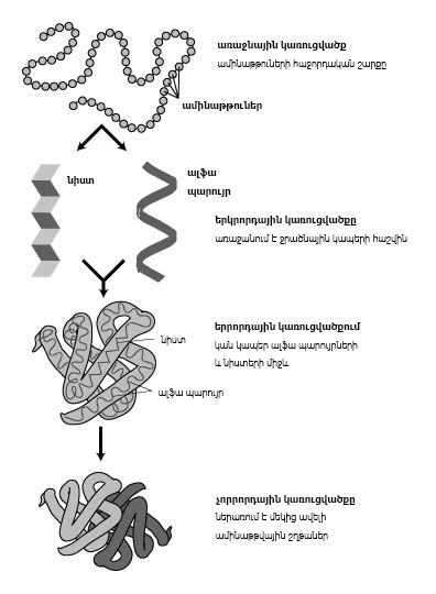 This image shows the structure hierarchy of Proteins translated in Armenian